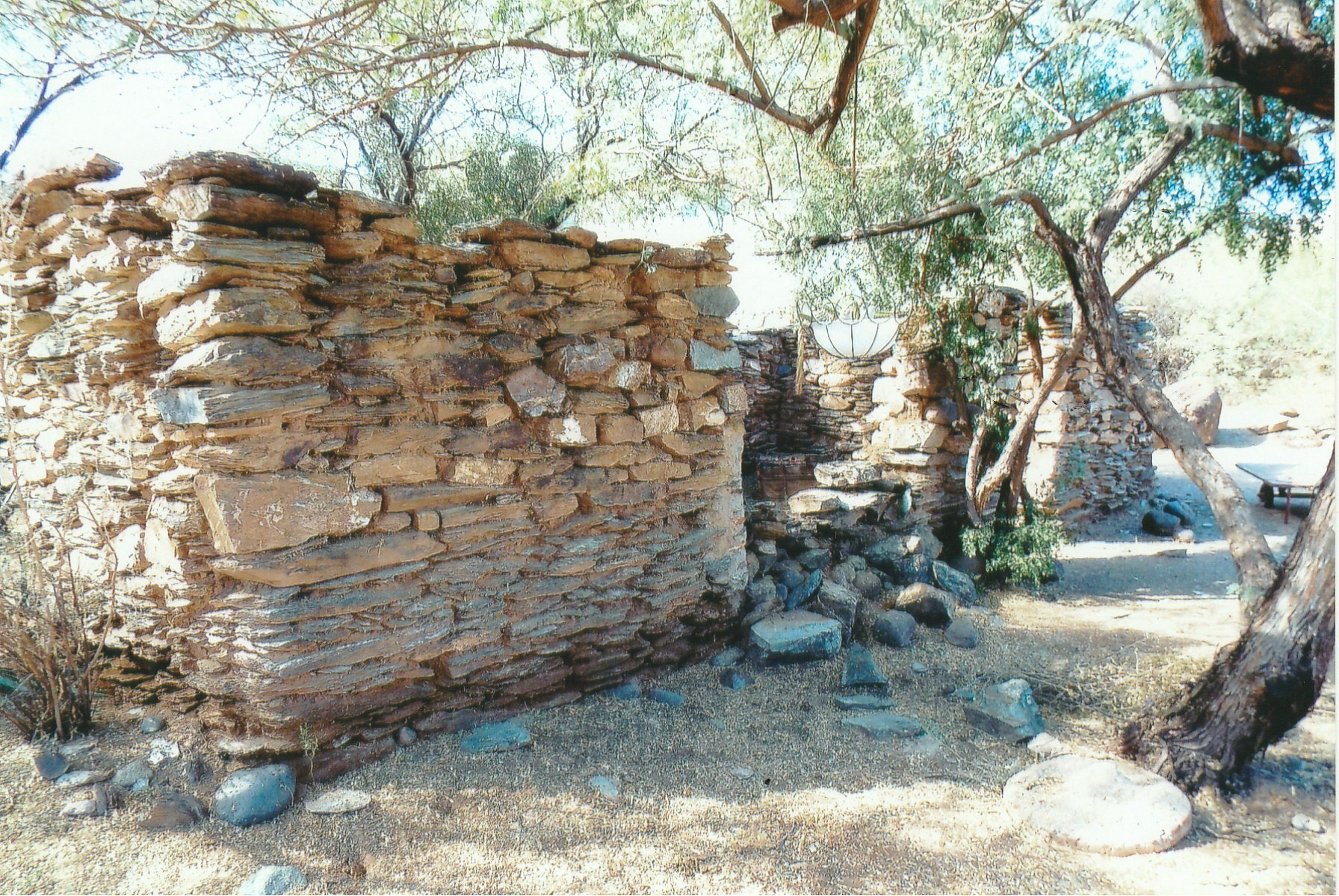 The ruins of the Jack and Trinidad Swilling Cabin - The 1868, ruins of the Swilling cabin is the oldest structure still standing in Black Canyon City.